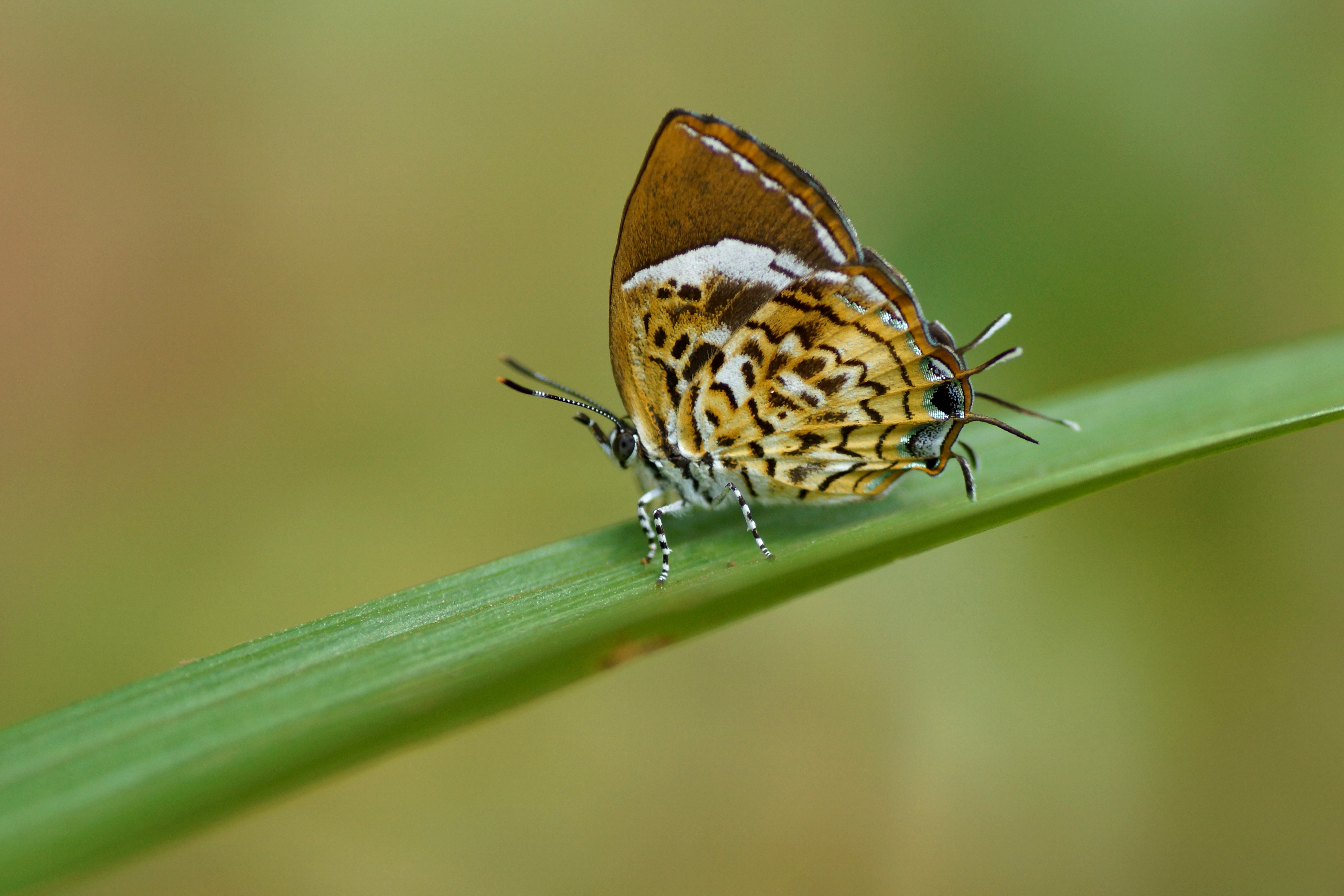 Kerala,India